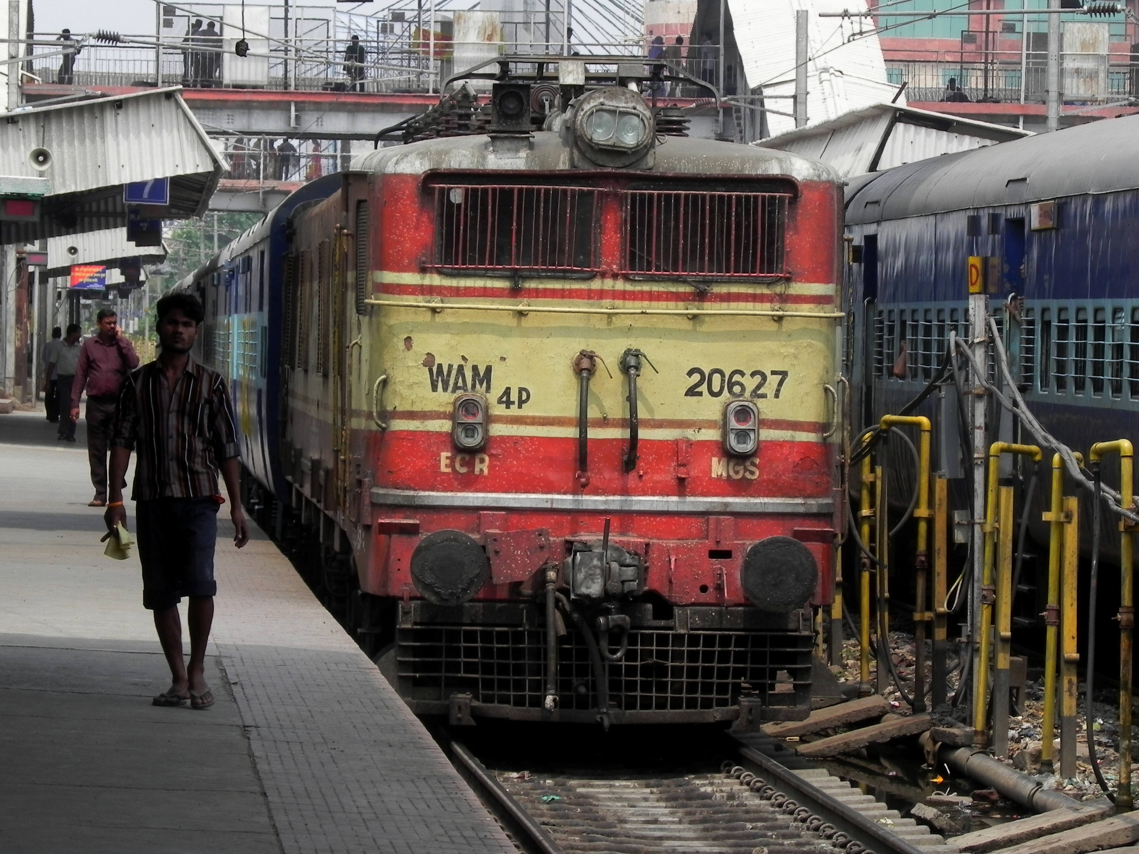 12295 (SBC-PNBE) Sanghamitra Express with MGS based WAM-4 loco - 20627 at Patna Yard